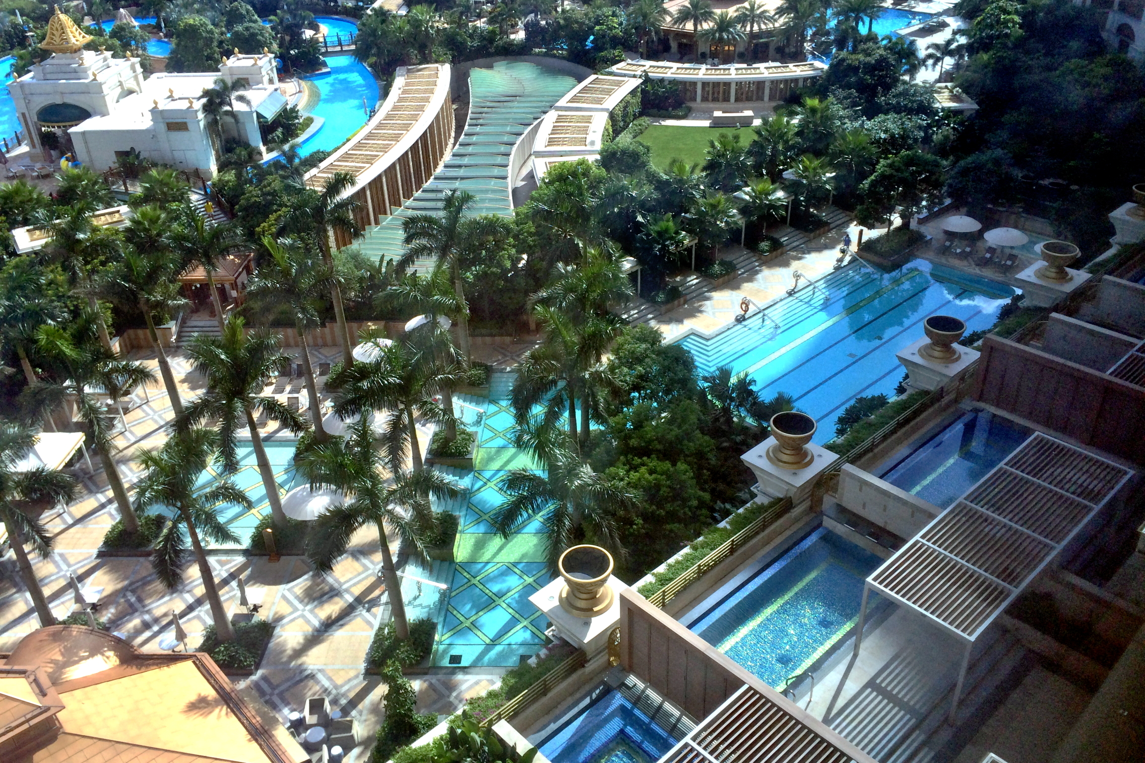 The Ritz-Carlton Macau Swimming Pool